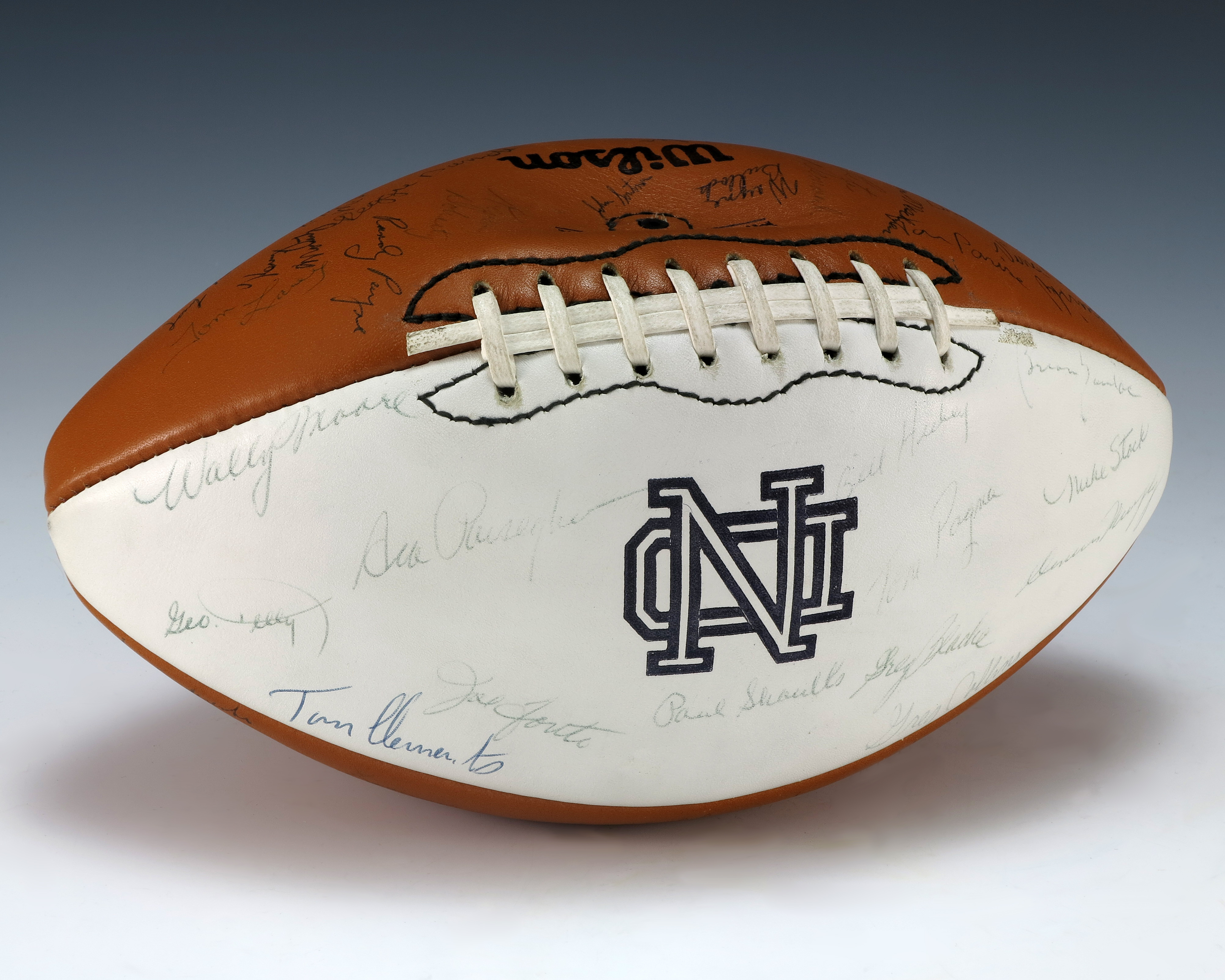 A football given as a gift to Gerald Ford, which features the Notre Dame monogram on a white panel, along with three brown panels. The football was signed by the 1974 Fighting Irish football team, including Ken MacAfee, Ara Parseghian and Tom Clements.